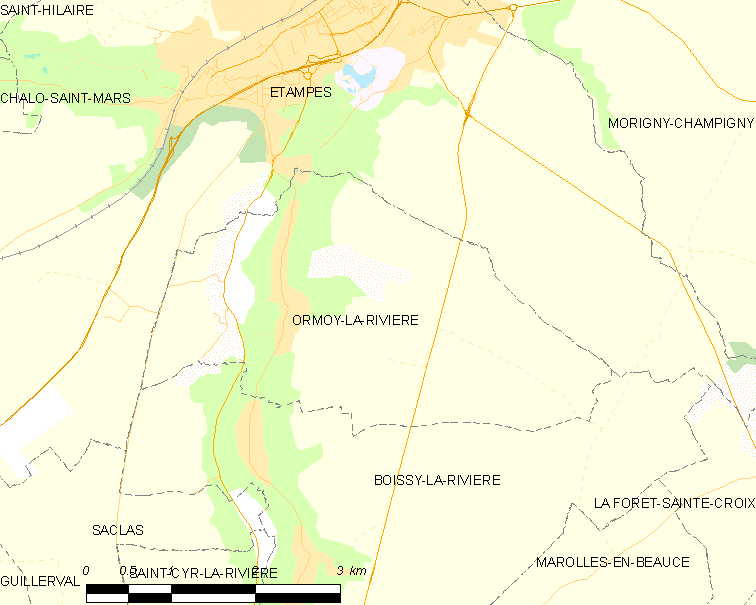 Map of French municipality Ormoy-la-Rivière